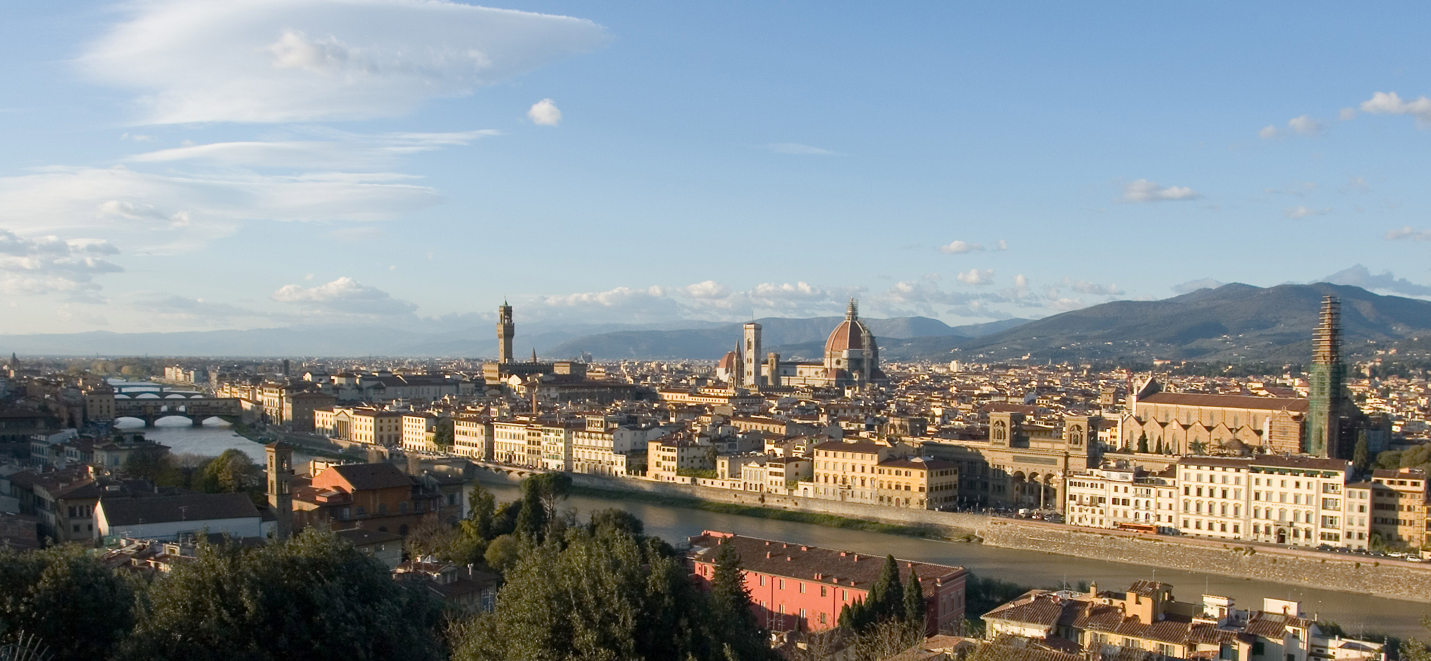 Florence view from Piazzale Michelangelo / Florence, Italy